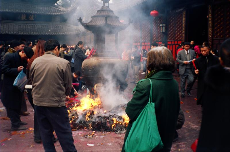 Worshippers offer up paper sacrifice money at the Wenshu Buddhist temple, Chengdu.